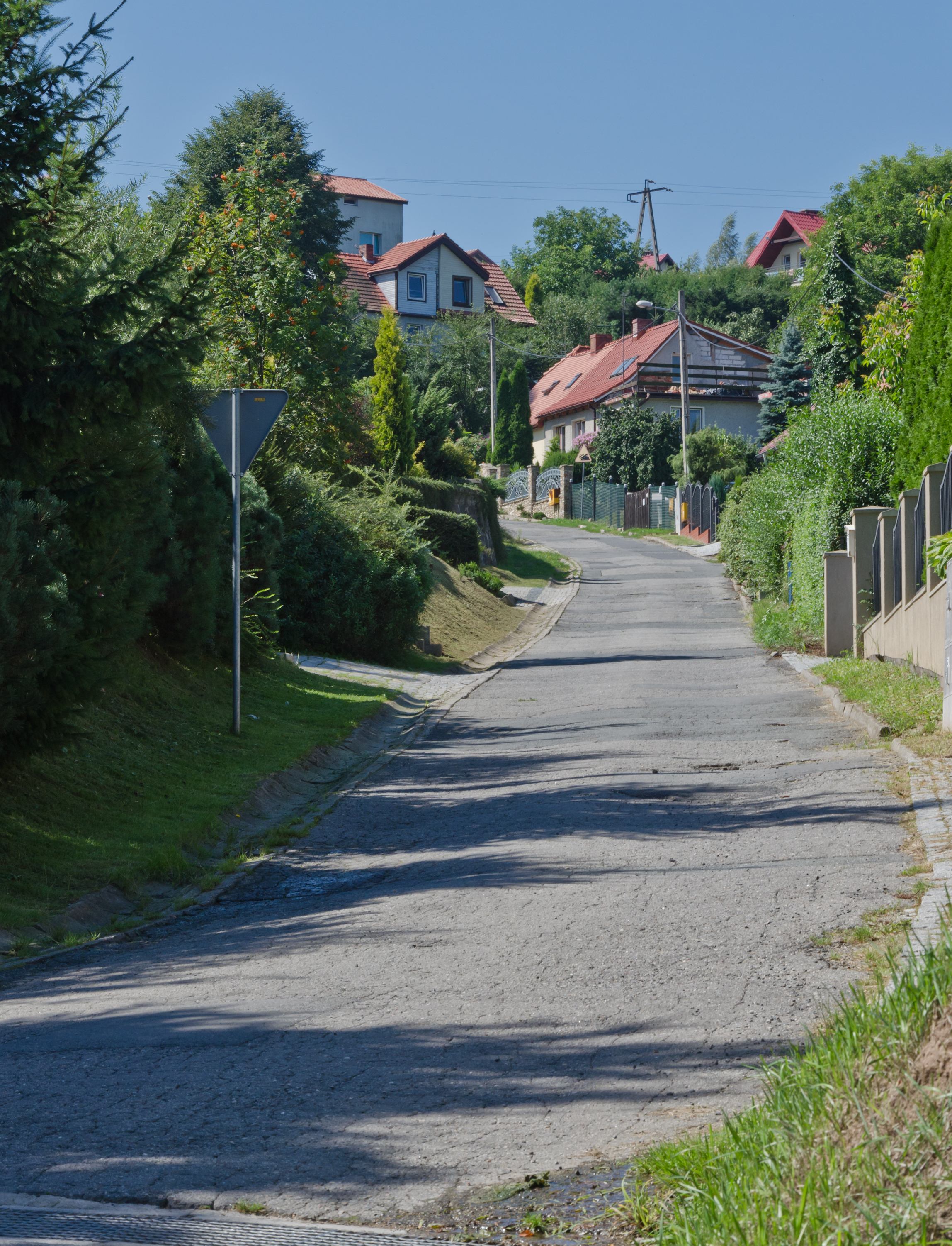 Wilcza Street in Kłodzko